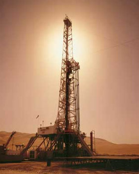 One of @hand Industrie's mant oil rigs.